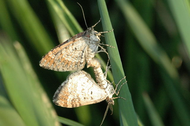 Picture taken in Commanster, Belgian High Ardennes . Species: Xanthorhoe fluctuata couple